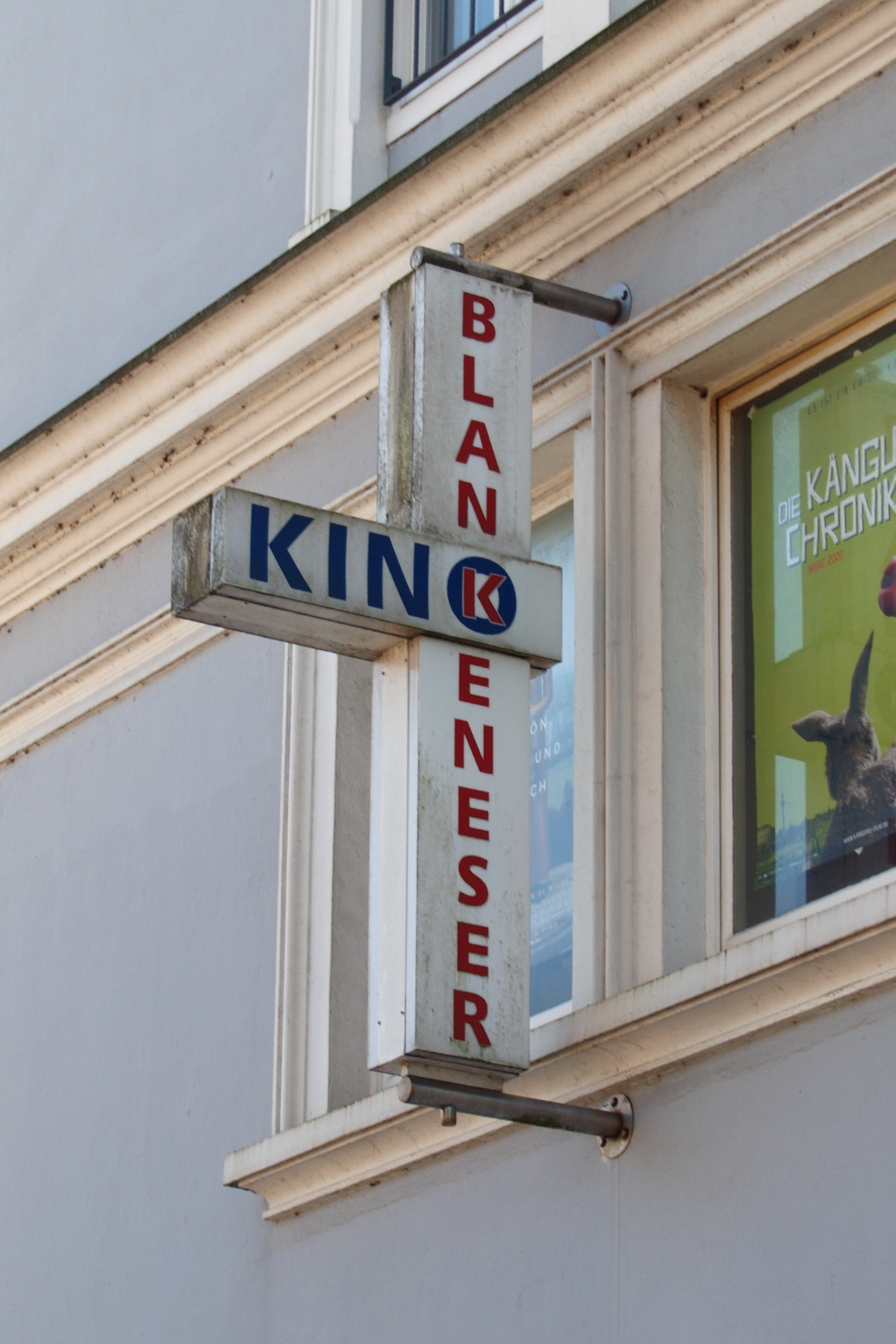 Sign of Blankeneser Kino, a cinema at Blankeneser Bahnhofstr. 4, corner to Am Kiekeberg, 22587 Hamburg-Blankenese, Germany.